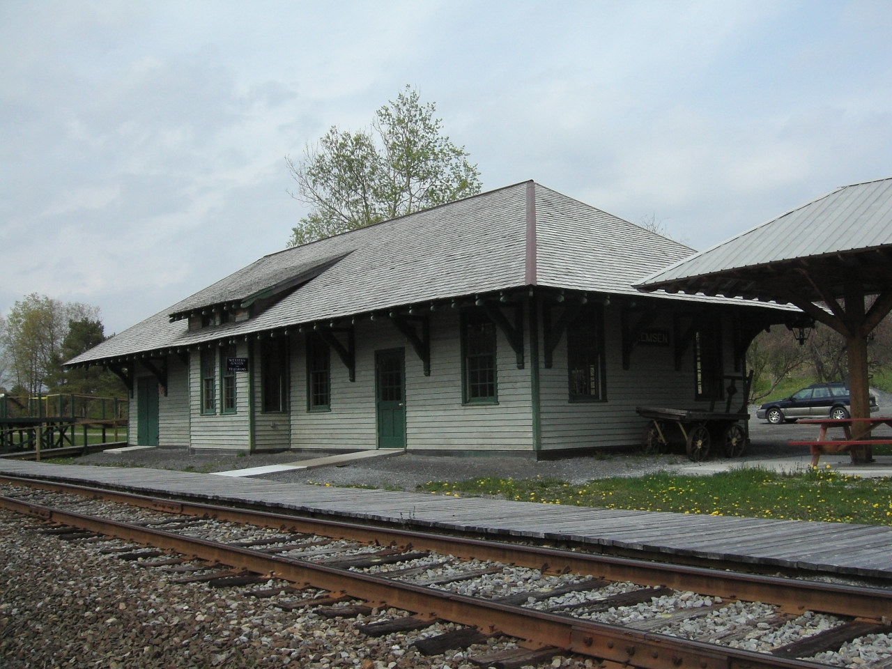 Remsen Depot, Remsen, New York. Originally a union station for the Utica & Black River (leased to the Rome Watertown & Ogdensburg), and the New York Central Railroad. Now it serves as the departure point for the Adirondack Scenic Railroad. The tracks are also used for freight by the Mohawk, Adirondack, & Northern Railroad. This building was built in 1999, on the same site and to the same plans as the original station.